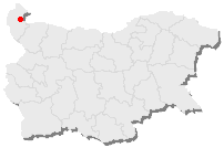 Map of Bulgaria, the red point is the position of Dunavtsi.